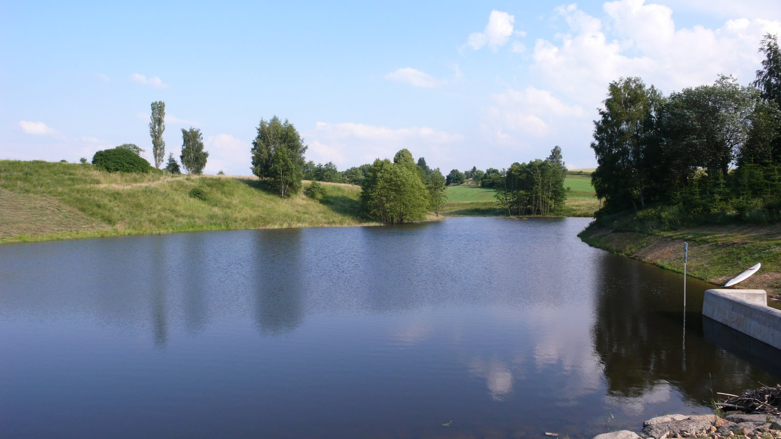 New lake in Dobroutov